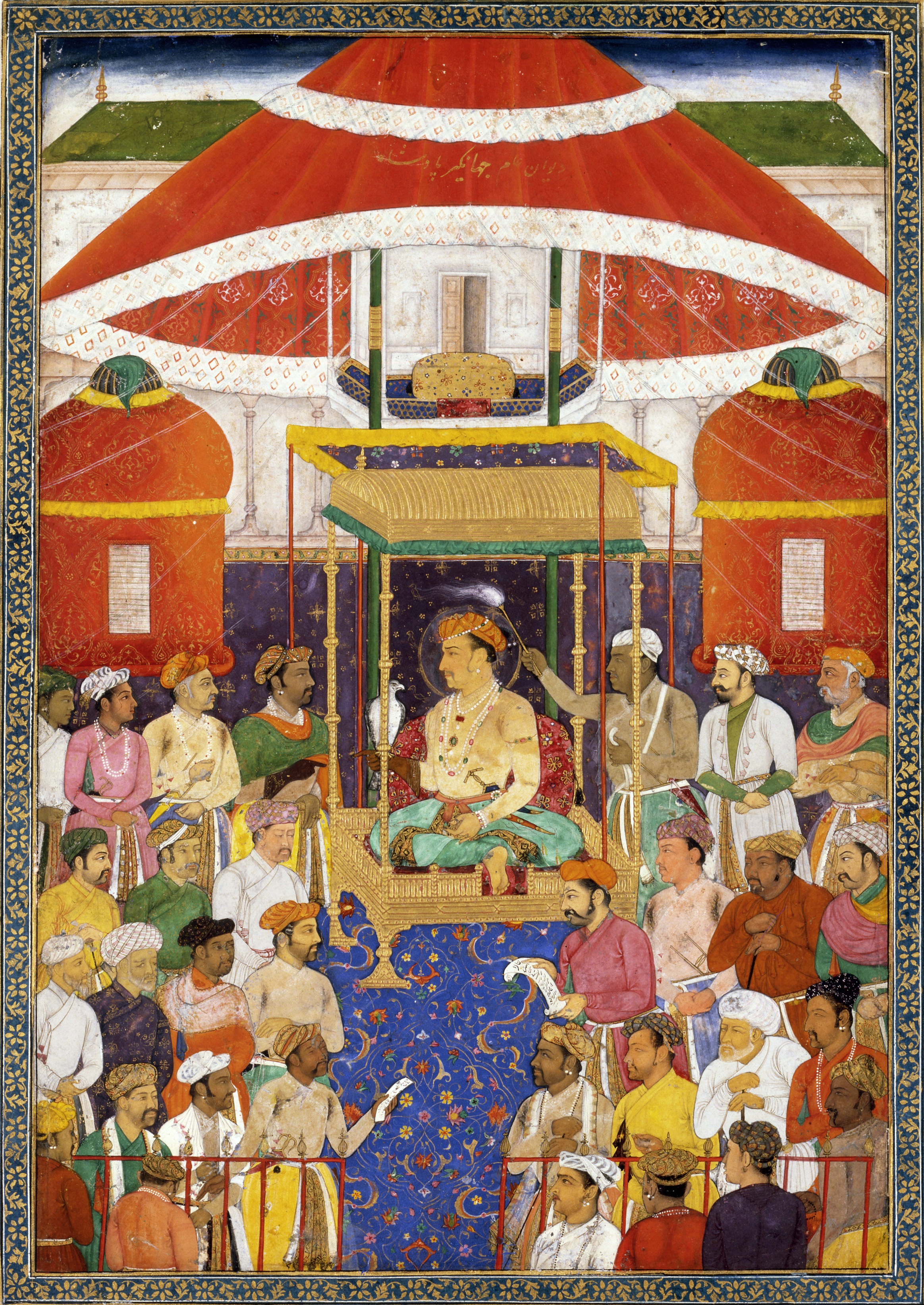 Jahangir's-Darbar, ca. 1620, The David Collection, Kopenhagen